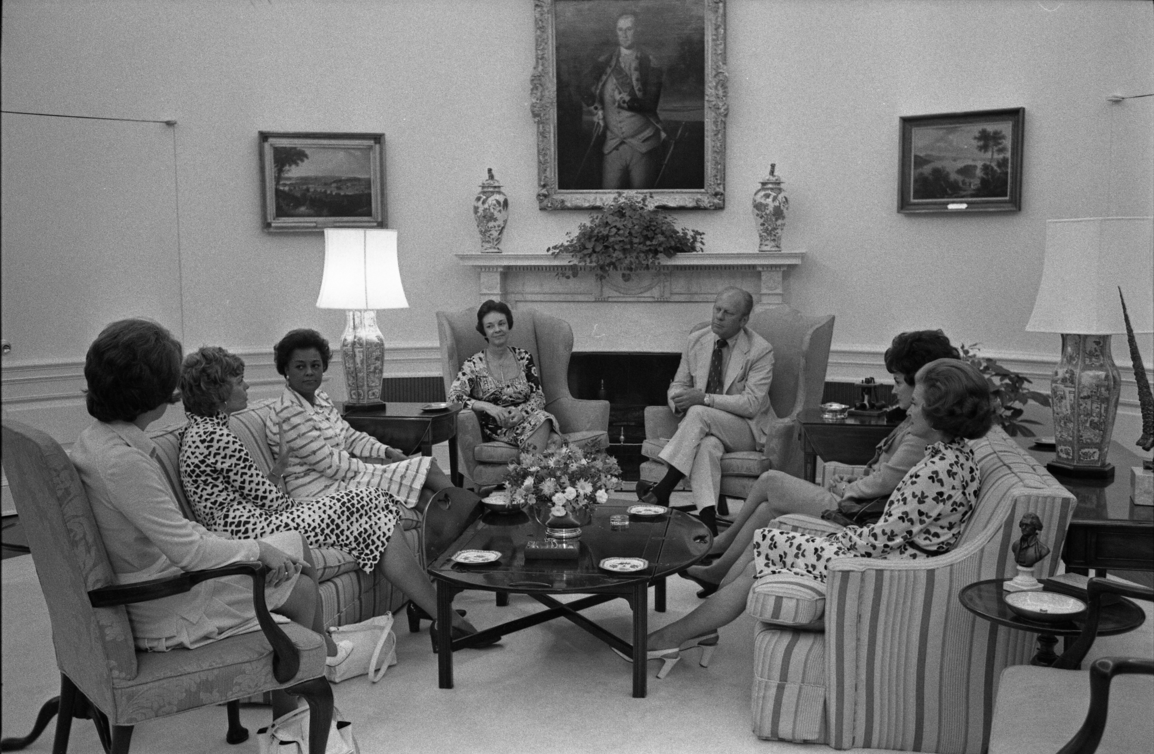 Scope and content: The members of this U.S. delegation to the United Nations World Conference for International Women’s Year are Patricia Hutar, Jewel LaFontant, Jill Ruckelshuas, Patricia Lindh, and Karen Keesling.